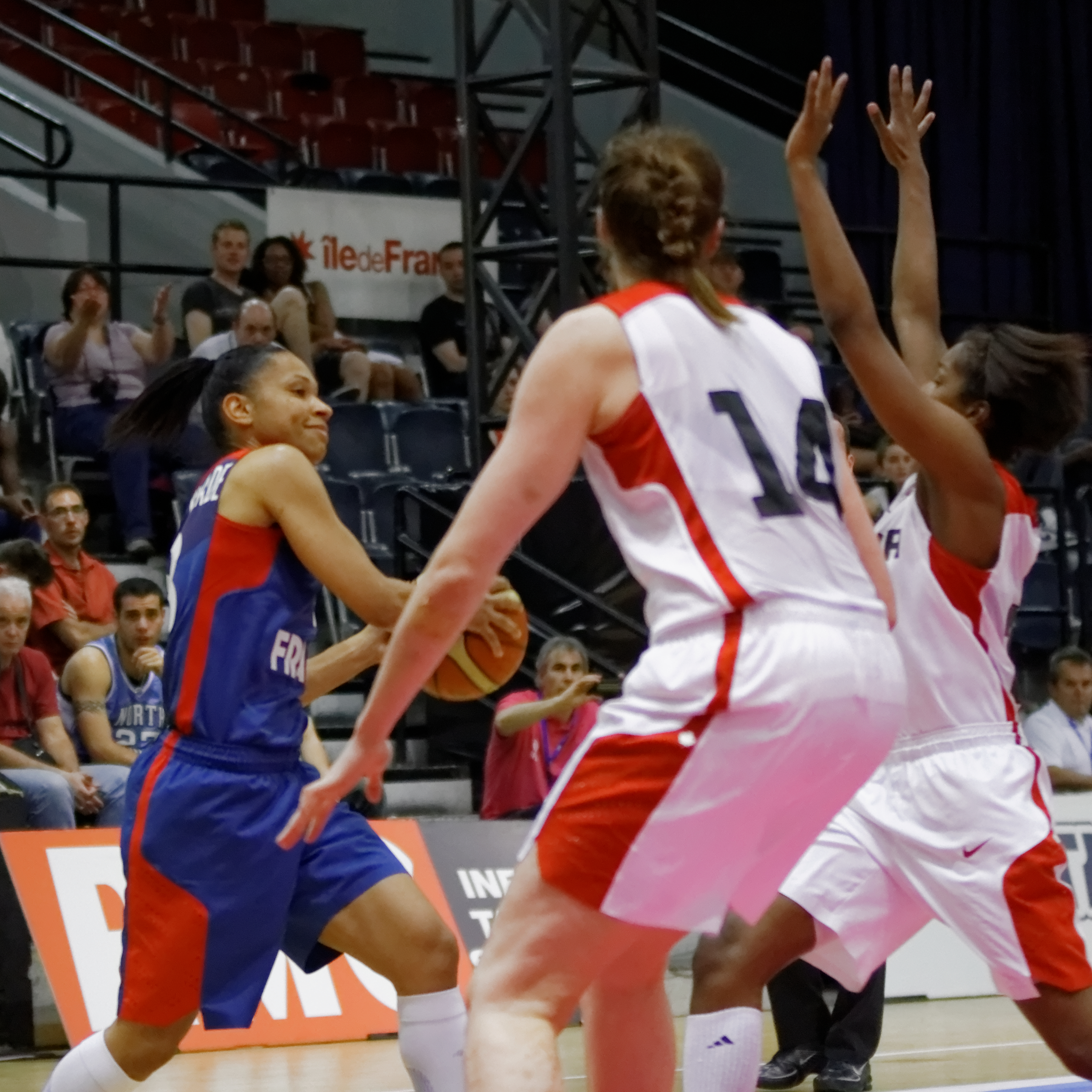 EuroEssonne, France - Canada, 7 June 2013.